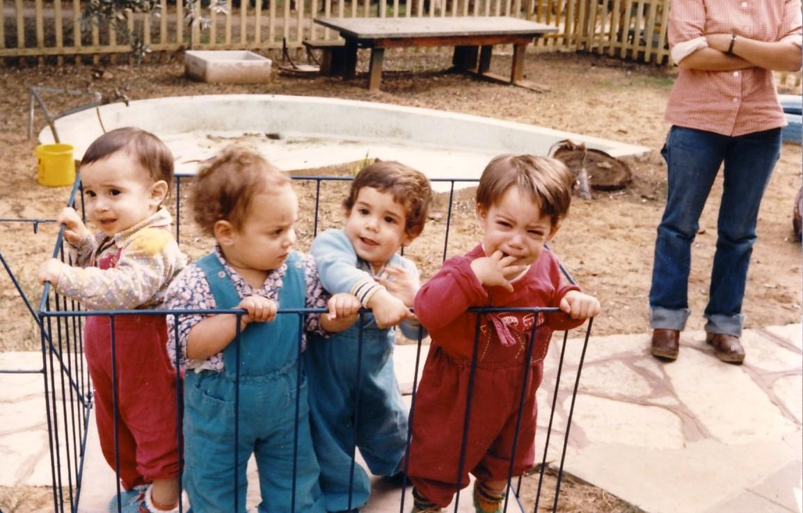 Gan-Shmuel zk12- 75, Education in Israel